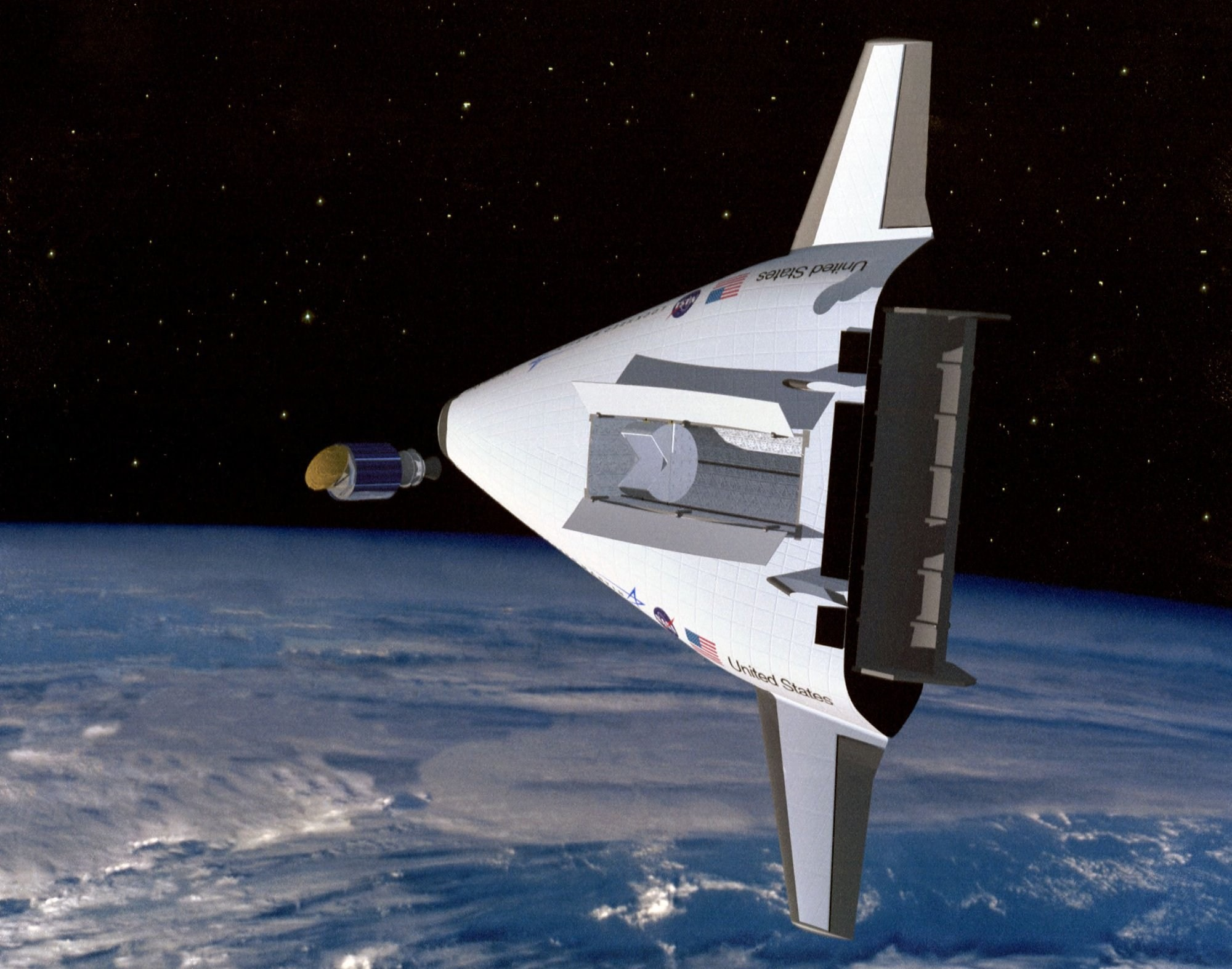 A Simulated view of the VentureStar in low earth orbit. Credit: NASA